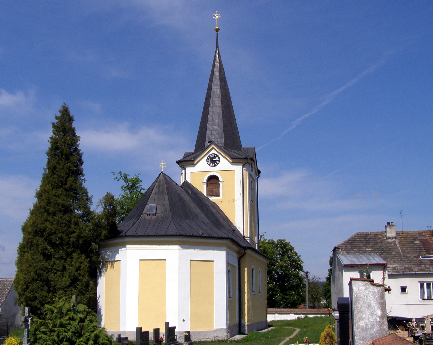 Trnava near Třebíč. Saints Peter and Paul church